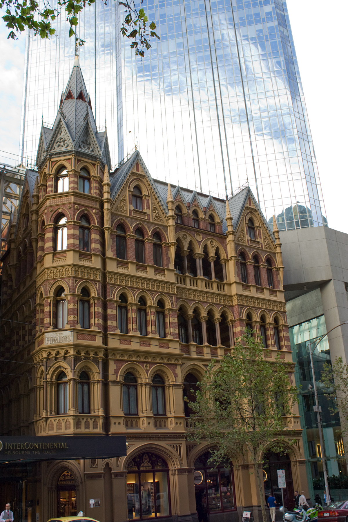 Rialto Building, Melbourne